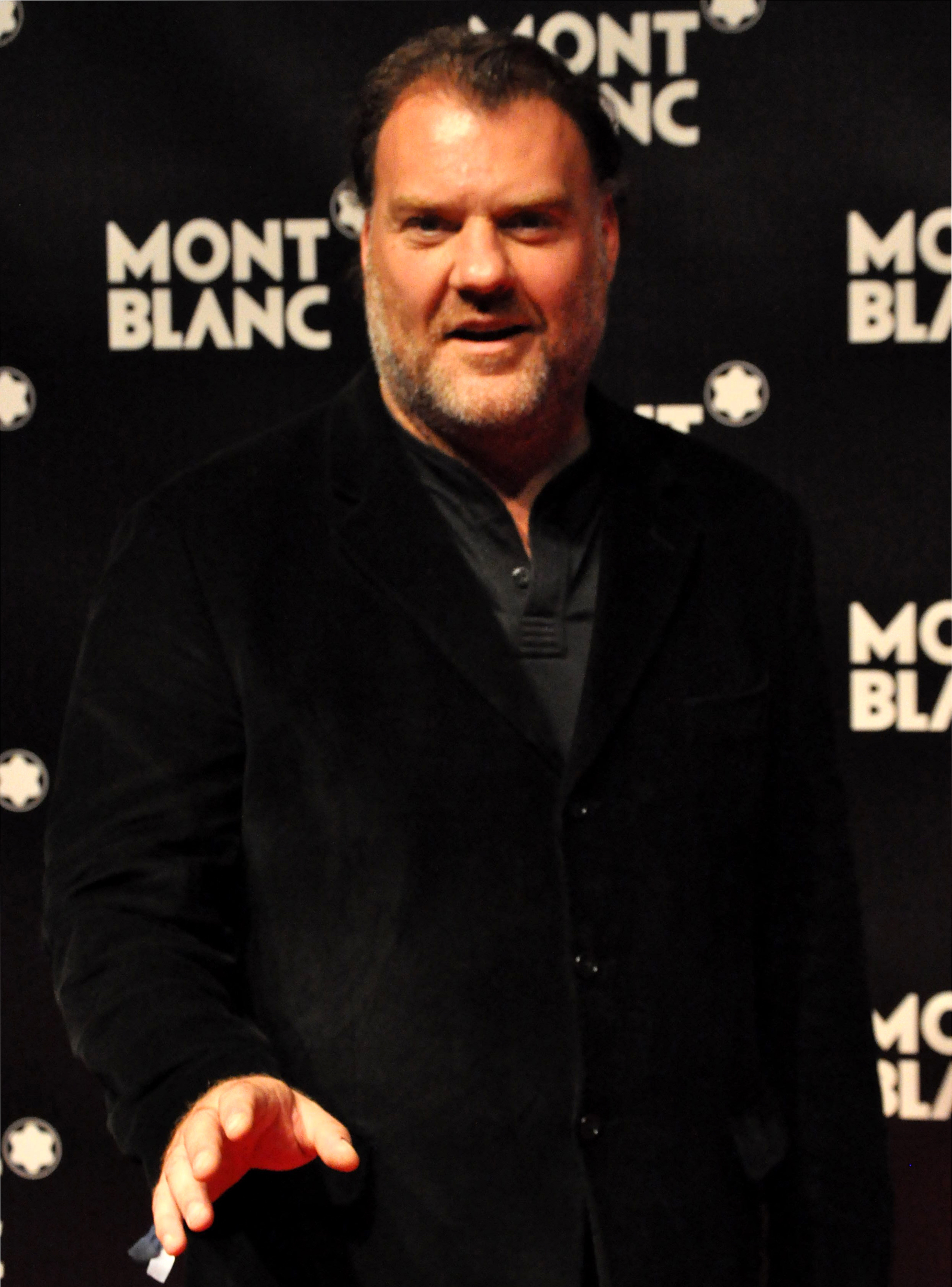 Bryn Terfel attending "To John - With Peace & Love" Global Launch Of The Montblanc John Lennon Edition on September 12, 2010 at Jazz at Lincoln Center in New York City.